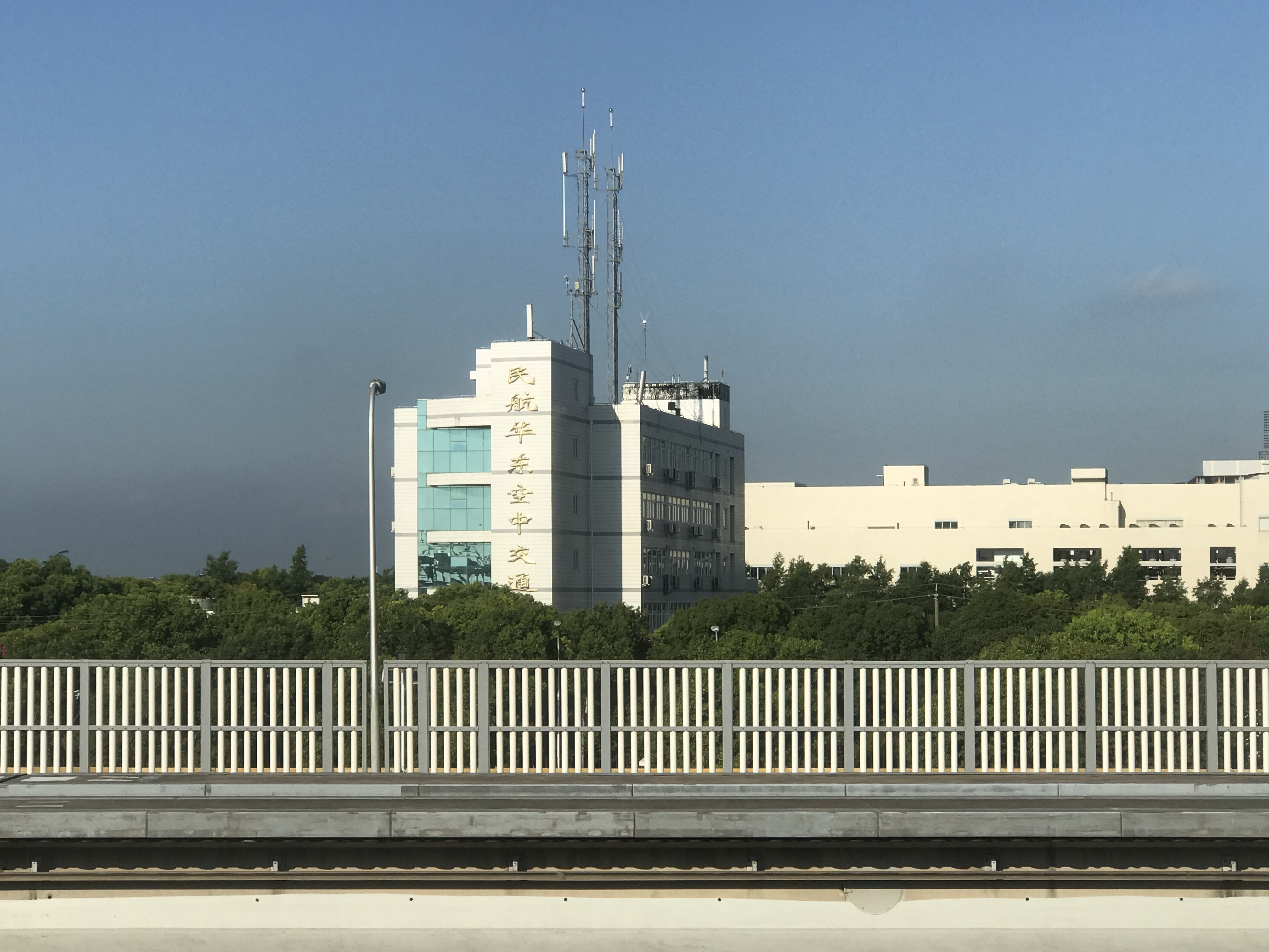 201908 CAAC East China Regional Administration Building